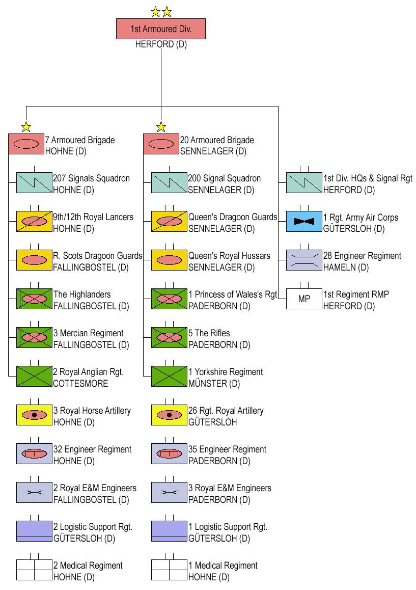 United Kingdom Army 1st Armoured Division Structure